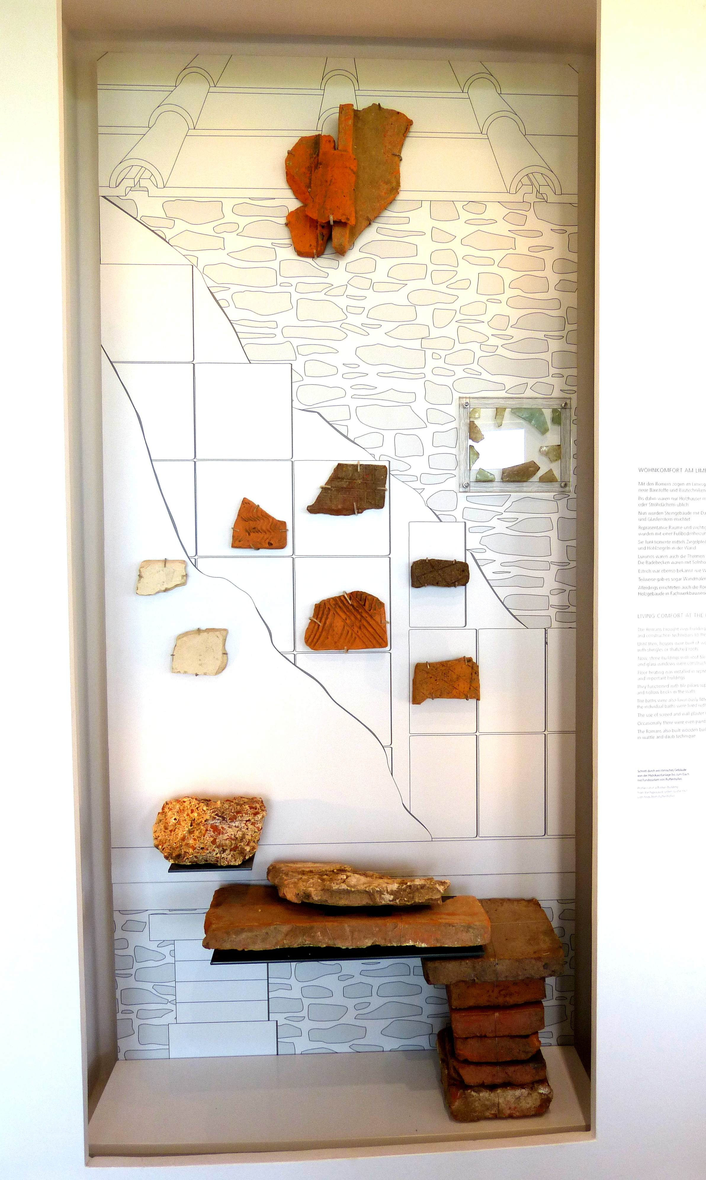 Weiltingen ( Bavaria ). Archaeological park Ruffenhofen: Limeseum - Profile cut of an ancient Roman building with findings from Ruffenhofen.